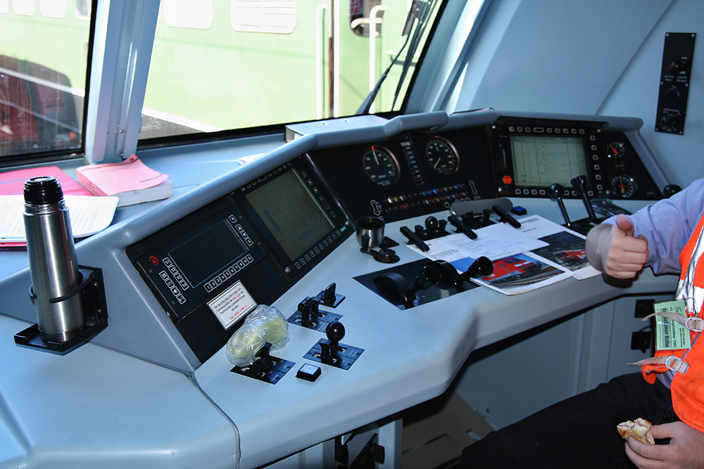 Driver's cab on a DB class 152 locomotive